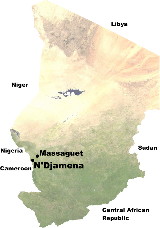 A map of Chad, showing the cities N'Djamena, Massaguet and Mongo.